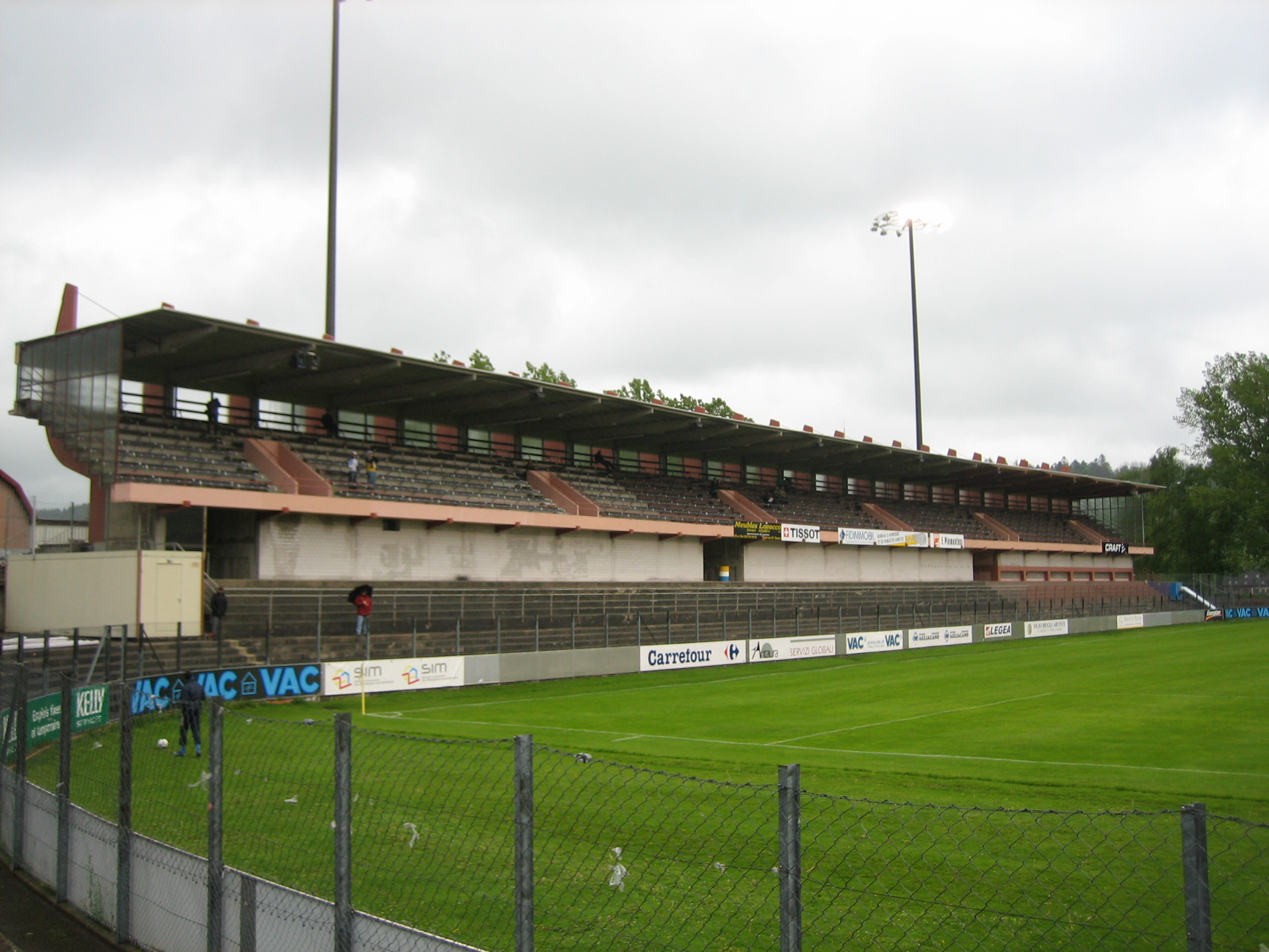 Stand of Stade de la Charrière in La Chaux-de-Fonds.